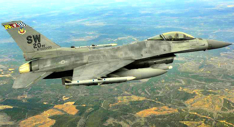 Col. James W. Hyatt, commander of the 20th FW, flies F-16C block 50 #00-0220 from the 79th FS on February 23rd, 2007 during his final flight as wing commander at Shaw AFB. [USAF photo by SSgt. Sarayuth Pinthong]